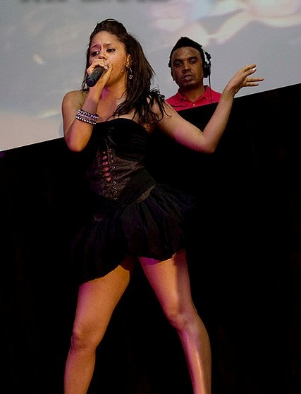 Kat DeLuna live in 2008.